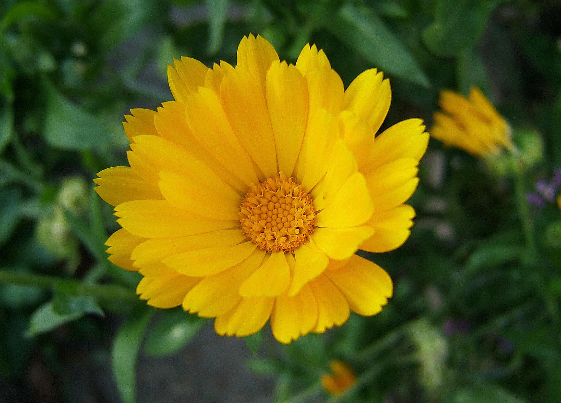 Marigold